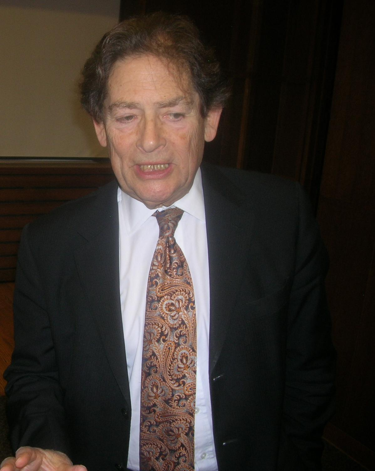 Photograph of Nigel Lawson, Baron Lawson, taken by Steve Paikin, host of TVO's